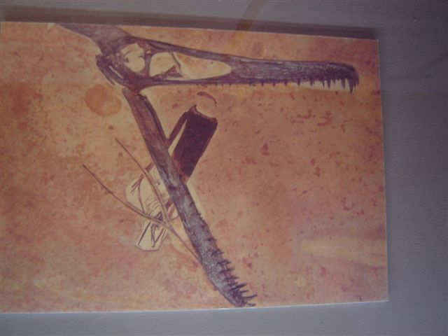 Ludodactylus, an ornithocheirid from the Early-Cretaceous of Brazil.